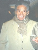 Photo of Manuel Zapata Olivella at the Liga Latinoamericana de Artistas.